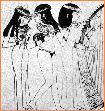 Ancient Egypt musicians.